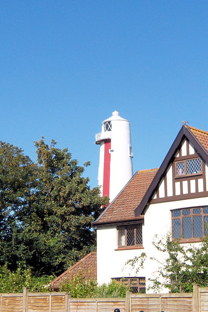 Burnham on Sea high lighthouse. Now a private dwelling, built 1832 inactive since 1996.